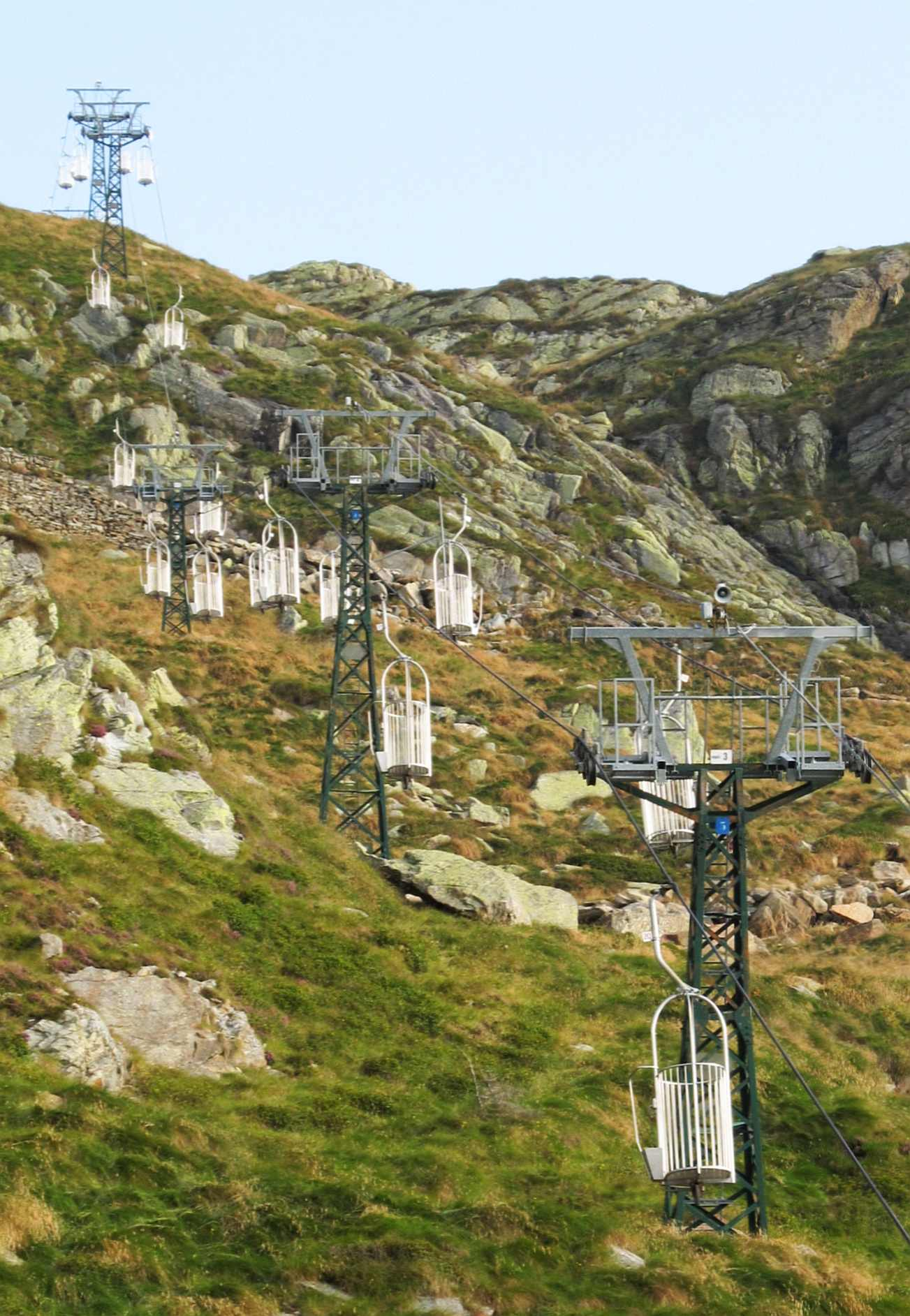 Oropa Sport - Monte Camino cableway (BI, Italy)